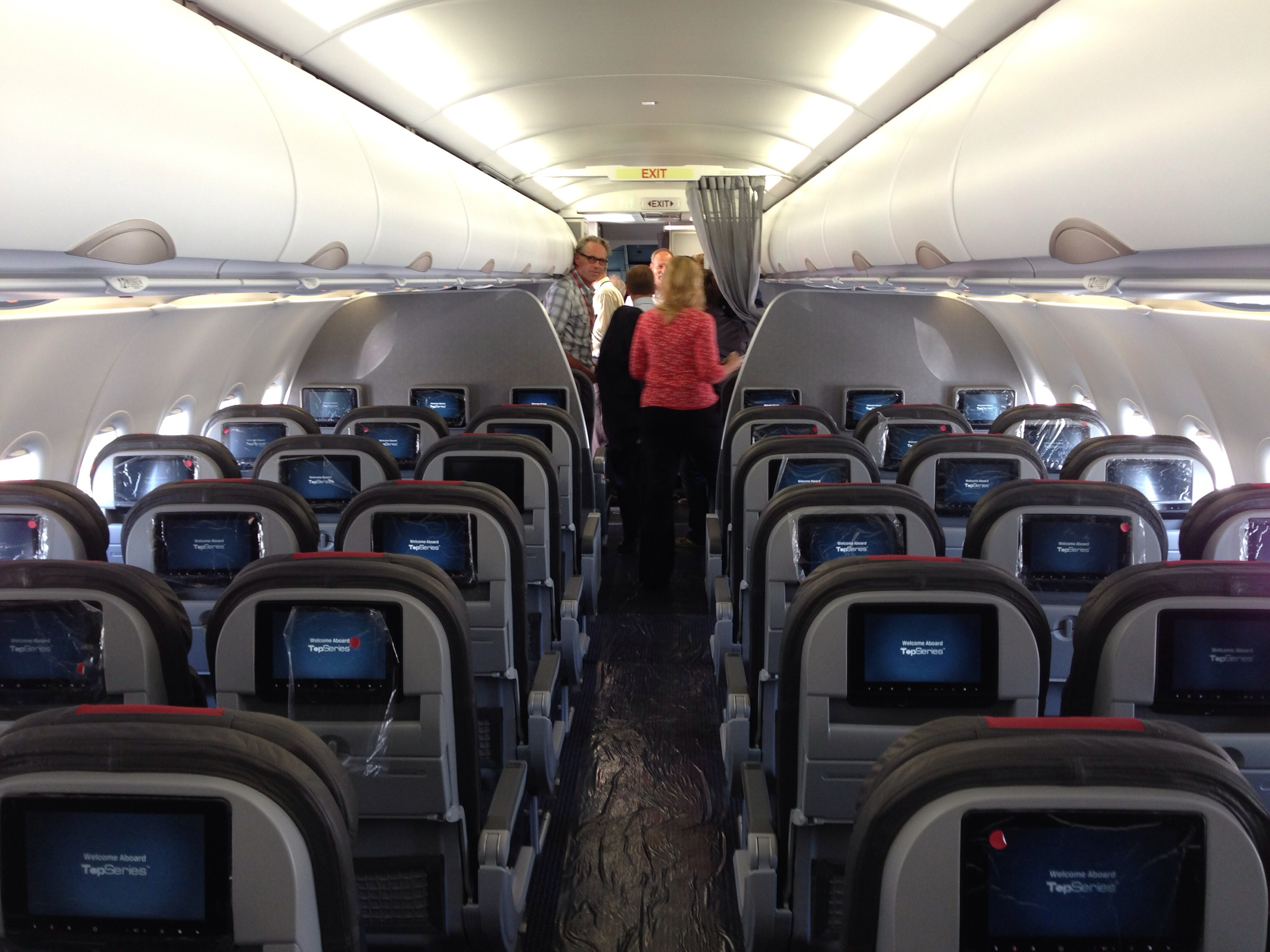 Recaro slimline seats in economy, Thales AVOD, GoGo wi-fi.